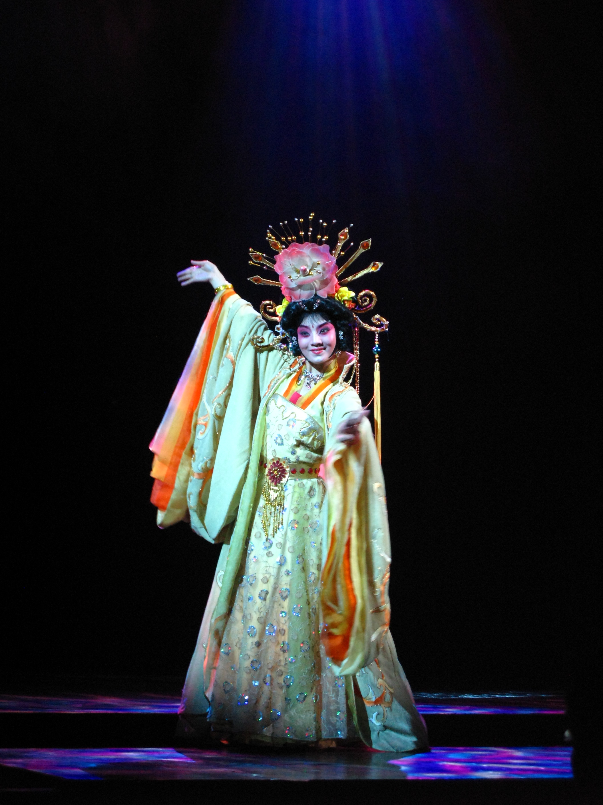 Shannxi's "Qinqiang" (a famous style of Chinese opera), in Xi'an, Shannxi, China